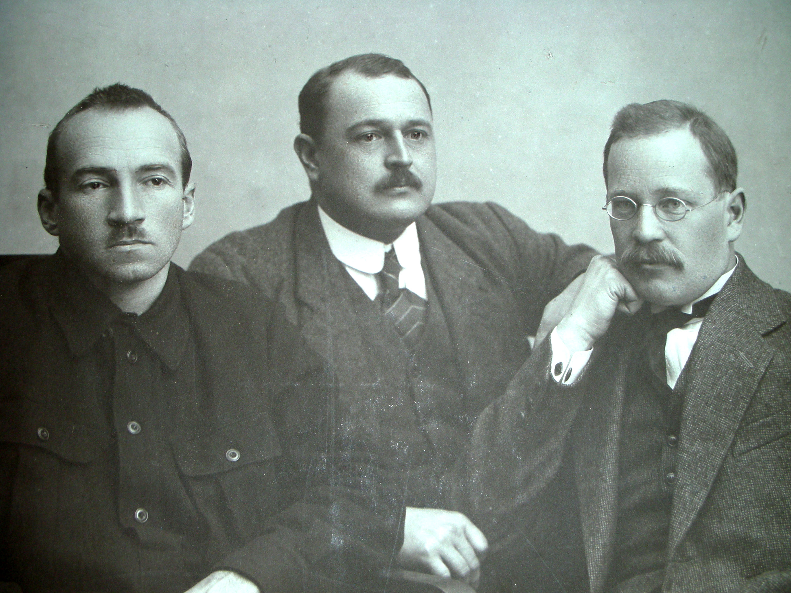 Nikolay Hieronimovicha Krause - in the centre - with colleagues